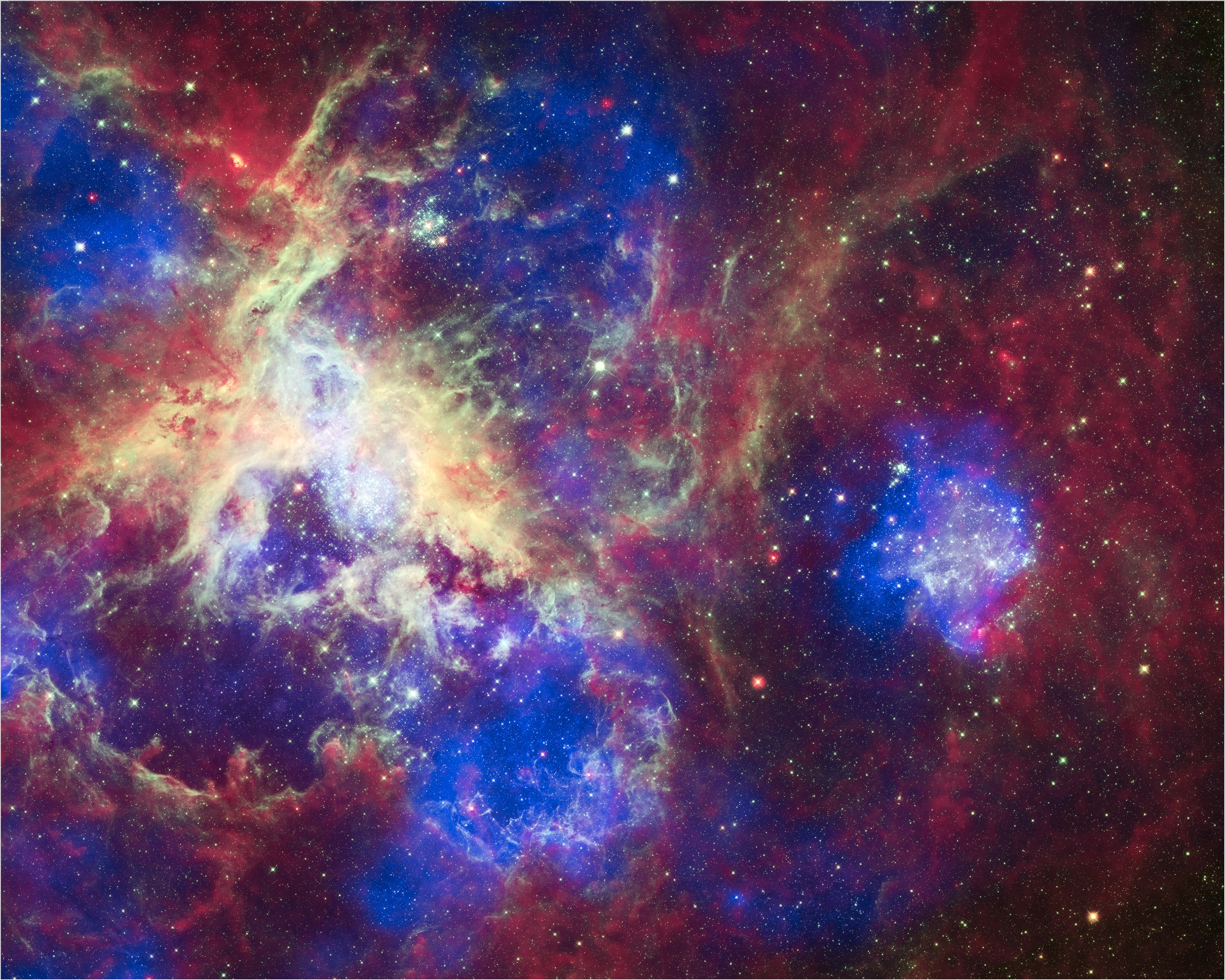 To celebrate its 22nd anniversary in orbit, the Hubble Space Telescope released a dramatic new image of the star-forming region 30 Doradus, also known as the Tarantula Nebula because its glowing filaments resemble spider legs. A new image from all three of NASA's Great Observatories--Chandra, Hubble, and Spitzer--has also been created to mark the event. The nebula is located in the neighboring galaxy called the Large Magellanic Cloud, and is one of the largest star-forming regions located close to the Milky Way. At the center of 30 Doradus, thousands of massive stars are blowing off material and producing intense radiation along with powerful winds. The Chandra X-ray Observatory detects gas that has been heated to millions of degrees by these stellar winds and also by supernova explosions. These X-rays, colored blue in this composite image, come from shock fronts--similar to sonic booms--formed by this high-energy stellar activity. The Hubble data in the composite image, colored green, reveals the light from these massive stars along with different stages of star birth, including embryonic stars a few thousand years old still wrapped in cocoons of dark gas. Infrared emission data from Spitzer, seen in red, shows cooler gas and dust that have giant bubbles carved into them. These bubbles are sculpted by the same searing radiation and strong winds that comes from the massive stars at the center of 30 Doradus.